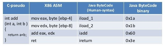 how